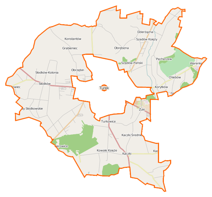 Map of Gmina Turek, Poland This map of Turek (gmina wiejska) was created from OpenStreetMap project data, collected by the community. This map may be incomplete, and may contain errors. Don't rely solely on it for navigation.